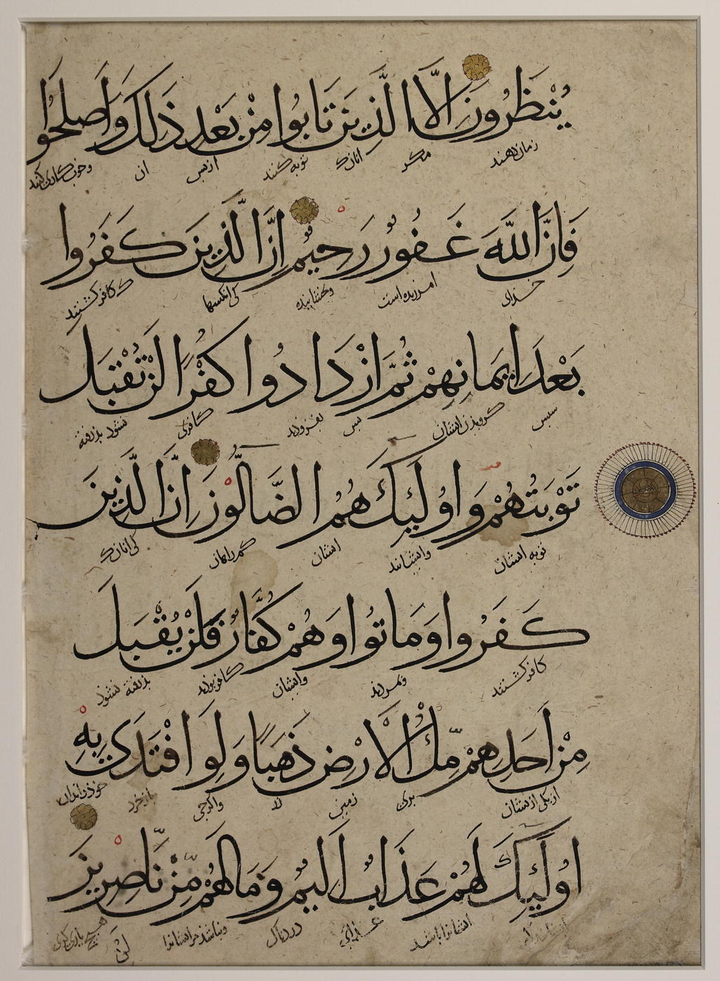 Verses 85-88 of the 3rd chapter of the Qur'an entitled Al 'Imran (The Family of 'Imran). The script used for the Arabic text is tawqi' while the Persian translations are written in a Persian naskh. Tawqi' is similar to thuluth but smaller and with systematic assimilations between letters ordinarily not joined. For example, line four (verse 90) includes the word al-dalun ("those who have gone astray") with the alif and lam (a and l) attached by a playful upturned loop.